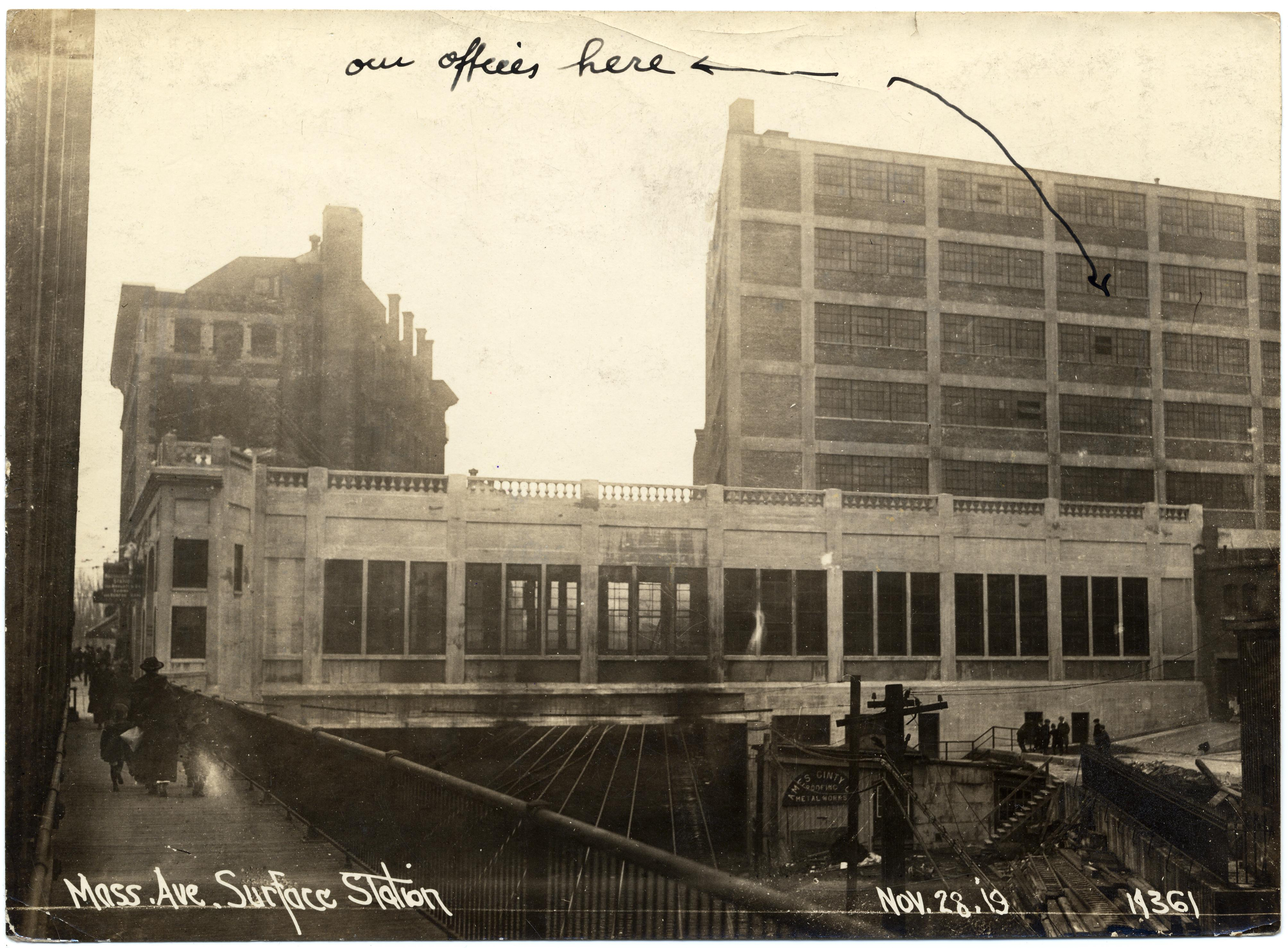 The Massachusetts Avenue surface station over the Boston & Albany Railroad cut in November 1919. "Our offices here" points to the Boston Transit Building, built over the subway station.